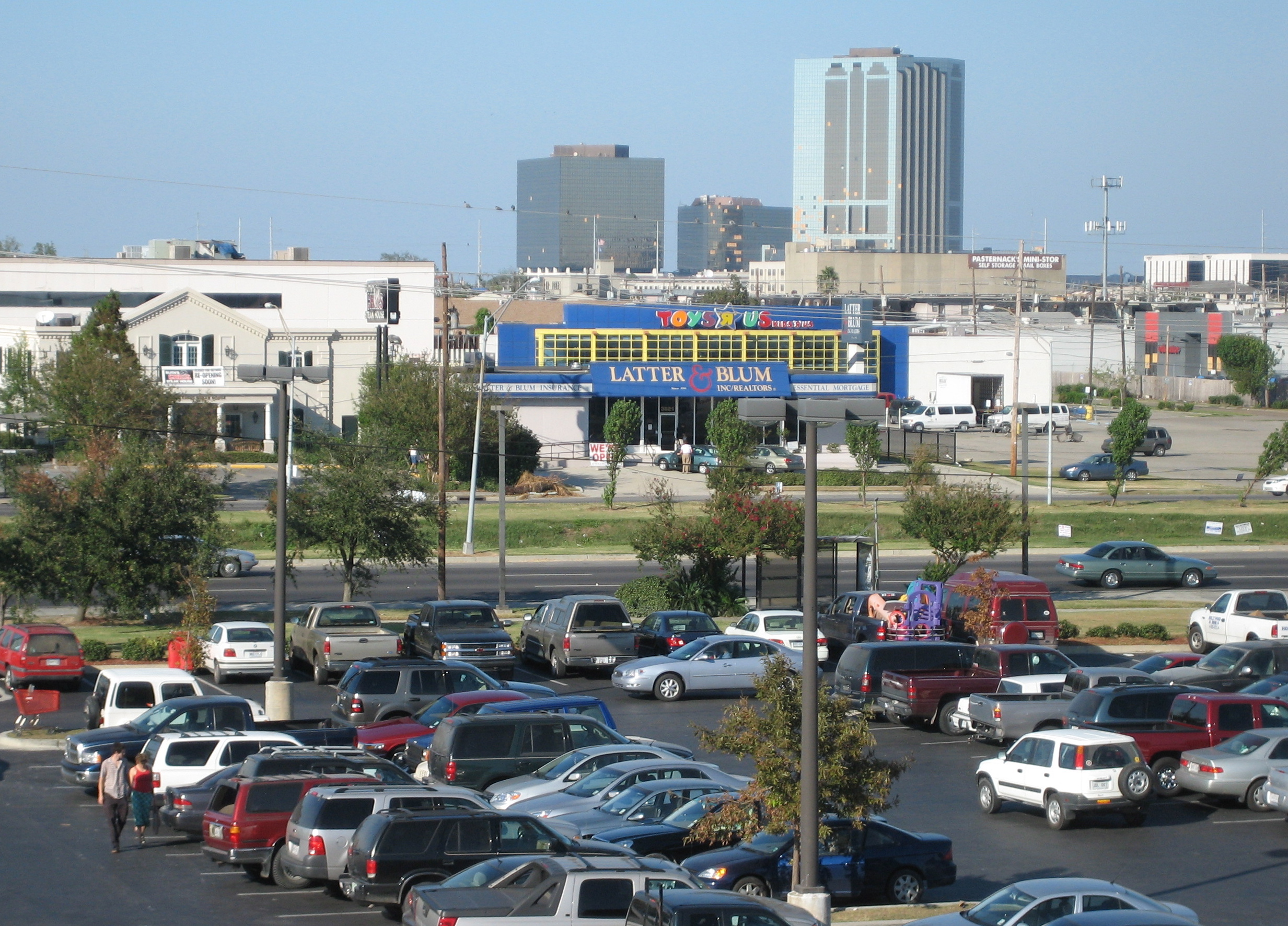 Veterans Boulevard, Metairie, Louisiana View NE towards the lake from roof of Lowe's. Photo taken October, 2005, almost 2 months after Hurricane Katrina; windows lost to the storm visible on some buildings.